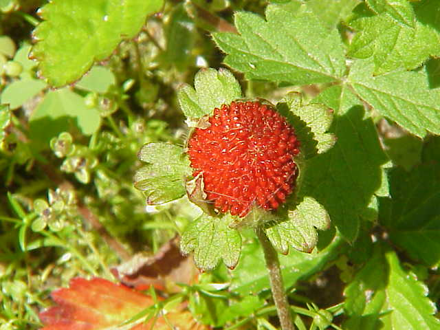 Species: Duchesnea indica Family: Rosaceae Image No. 2